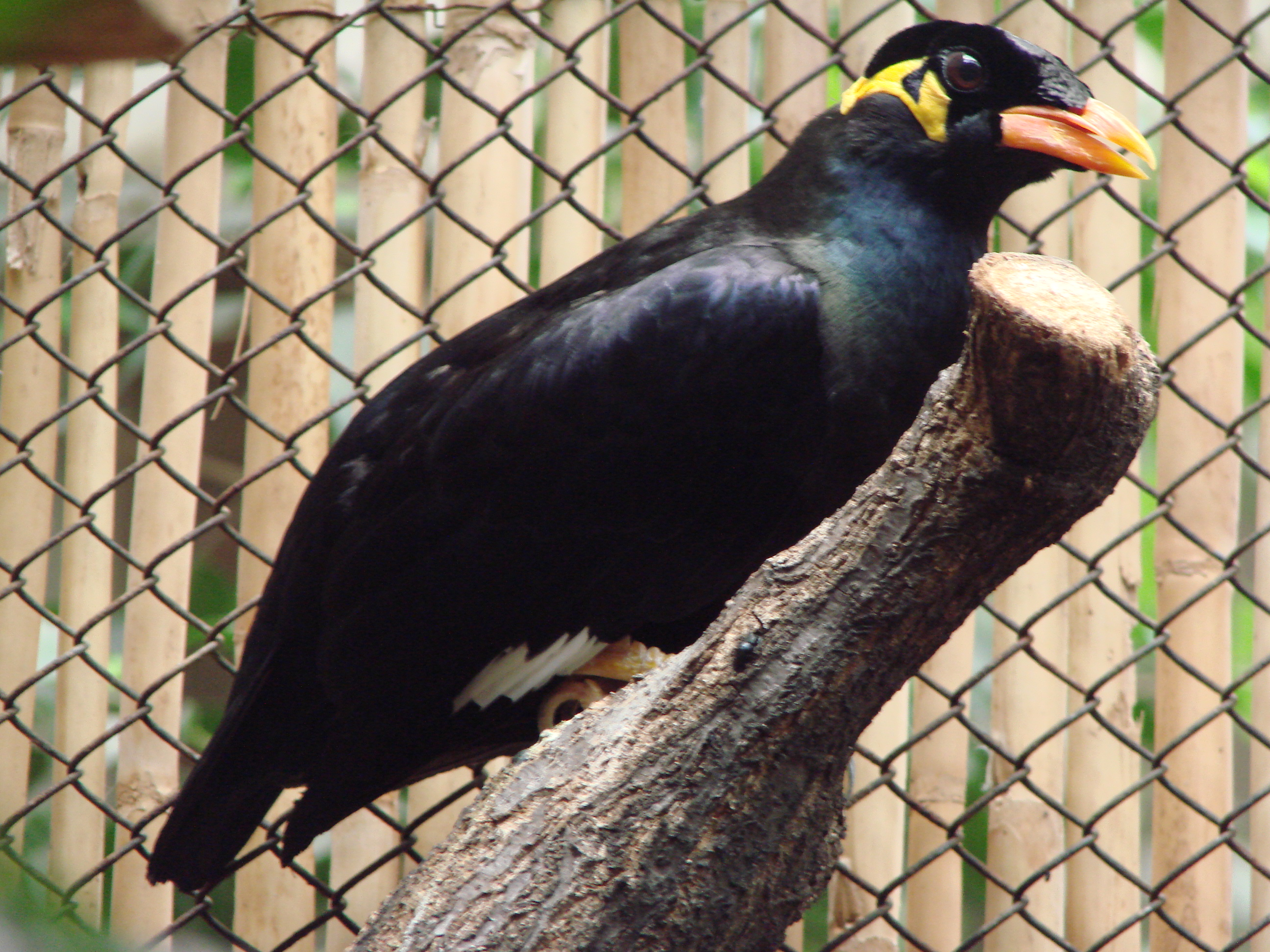 Picture taken in the zoo of Wrocław (Poland): Gracula religiosa (Linnaeus, 1758)